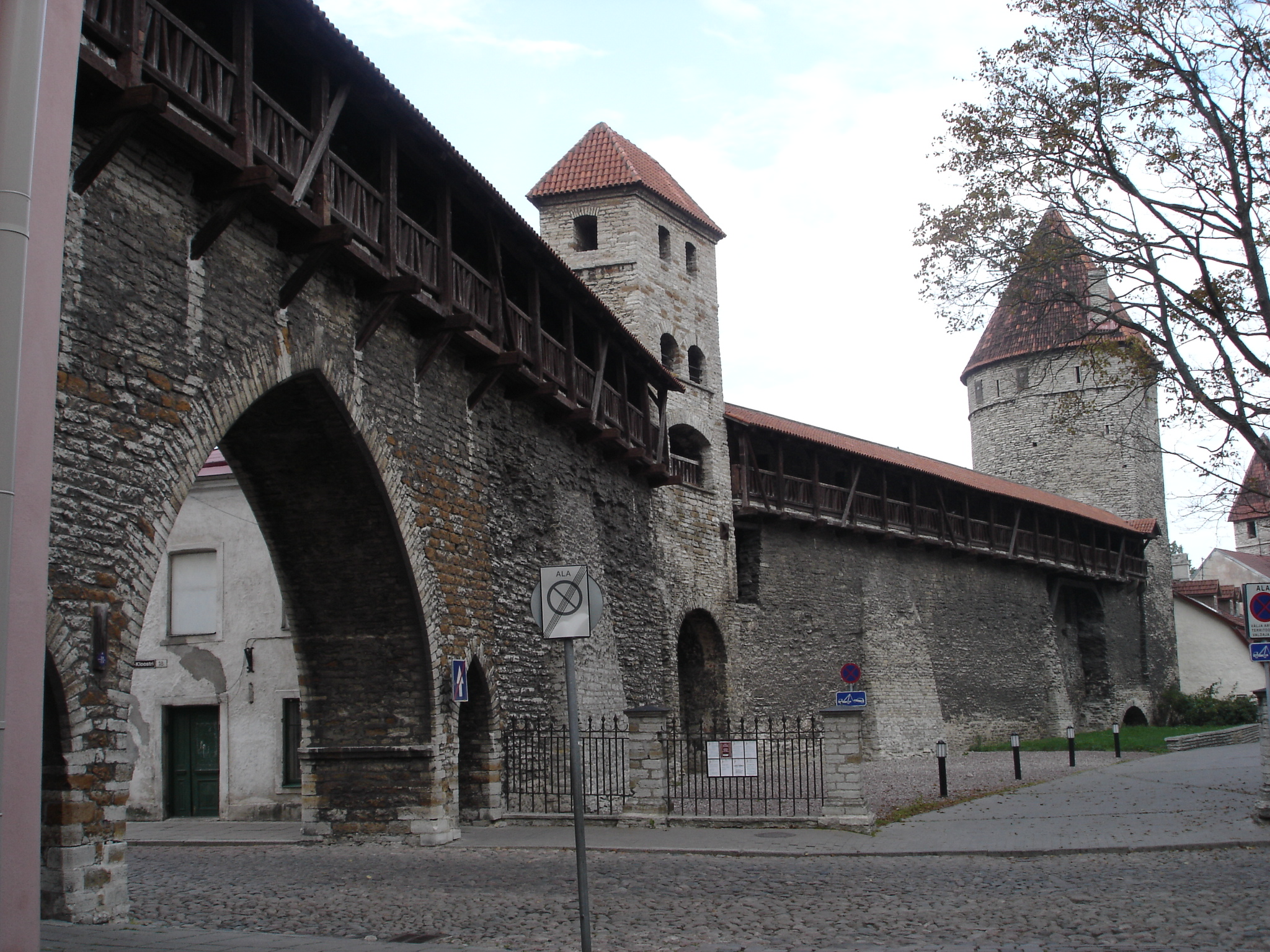 Part of Tallinn city wall.